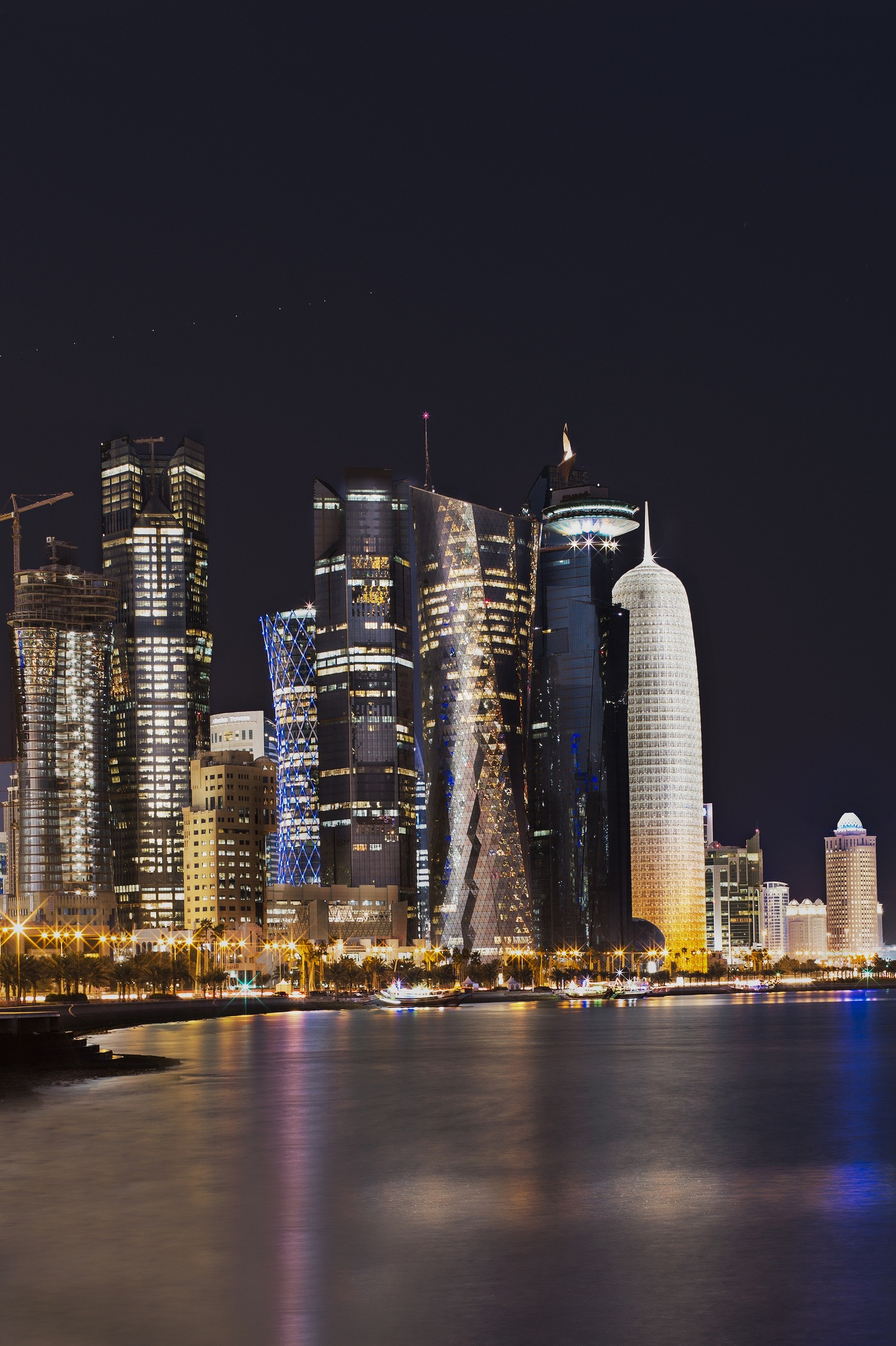 Skyline of Doha, near the Corniche area, taken at night.